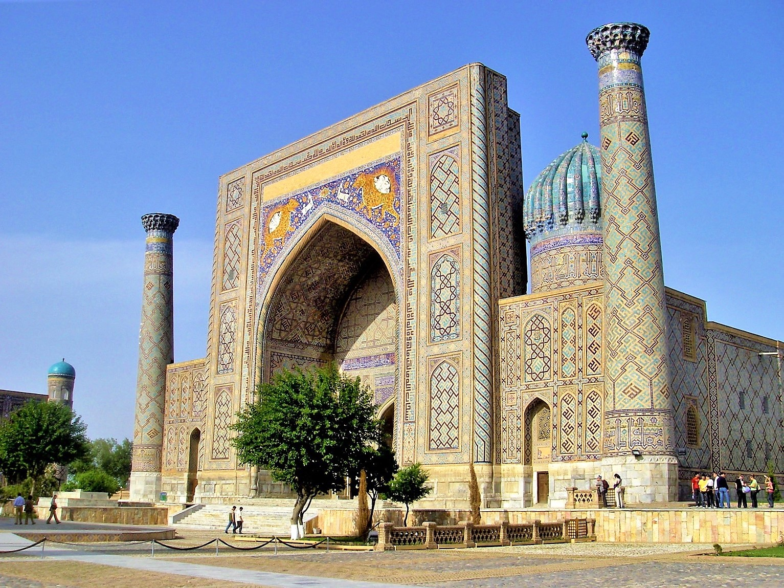 Mosque